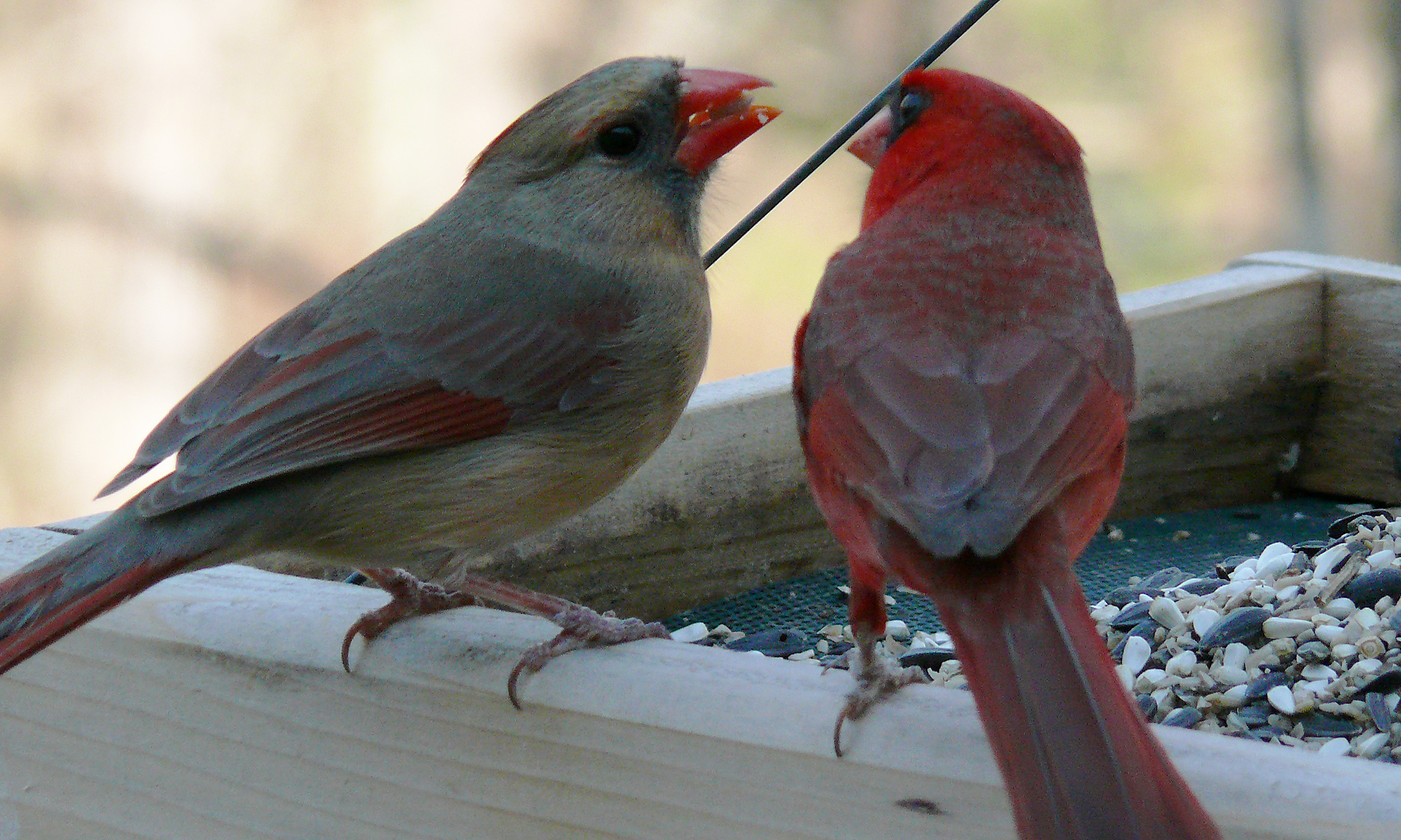 A male Northern Cardinal (Cardinalis cardinalis) offering food to a female. This ritual is a common part of the Cardinal's mating behavior, and presumably allows the male to demonstrate his ability to provide food for their young. Photo taken with a Panasonic Lumix DMC-FZ50 in Johnston County, North Carolina, USA.